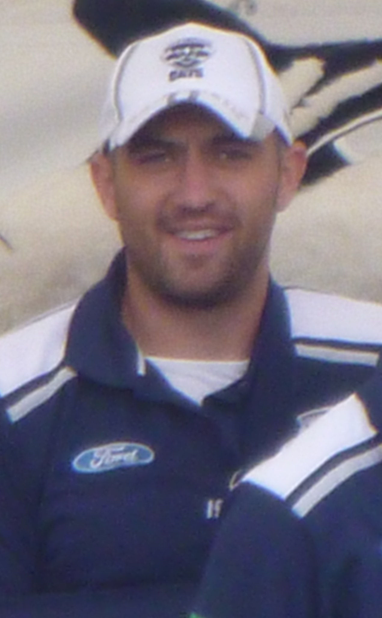 James Podsiadly at the Geelong Football Club's 2011 AFL Premiership victory parade in Geelong, Victoria, Australia.